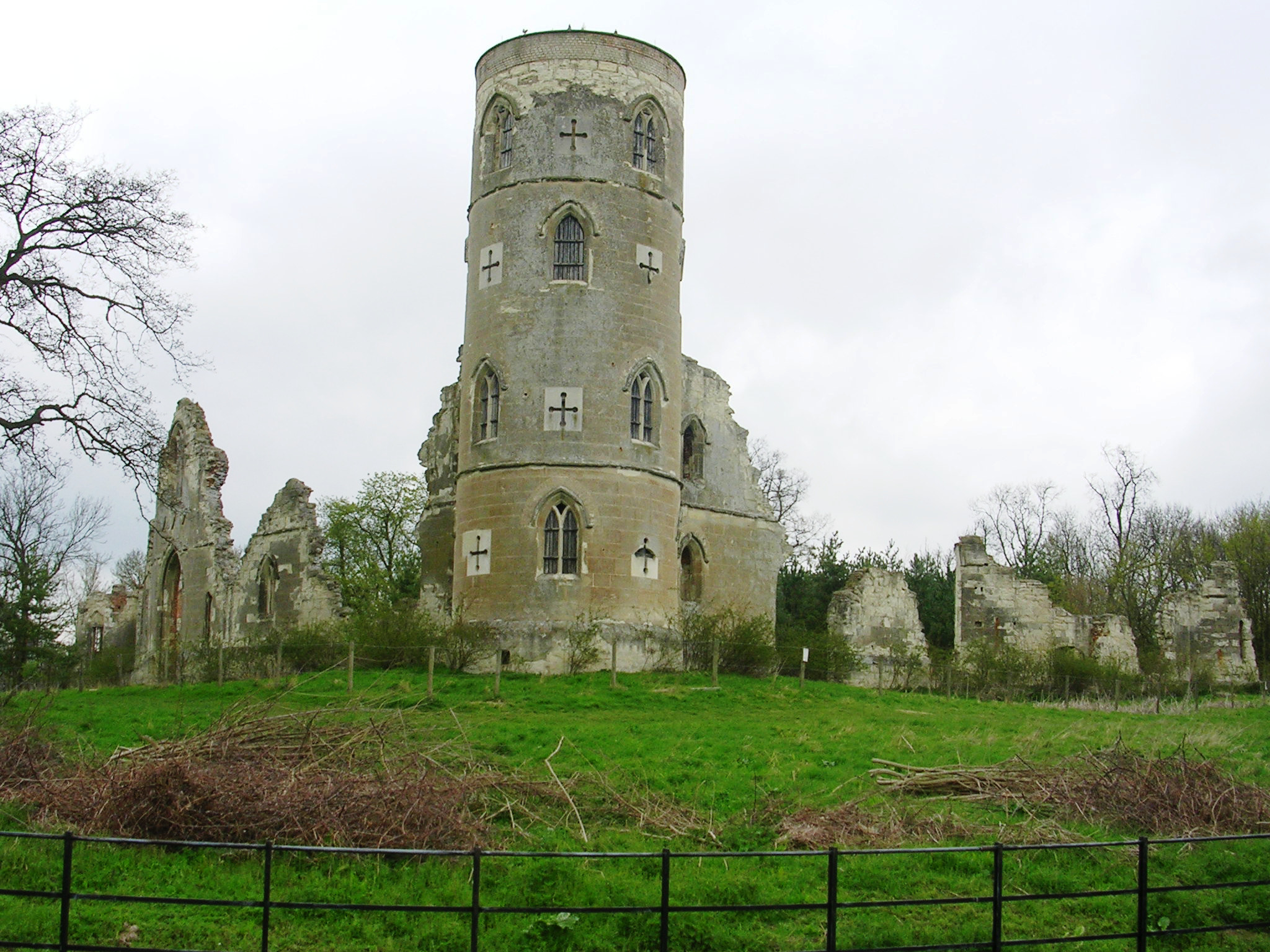 Wimpole Hall "folly," designed by Sanderson Miller in 1751 (making it an early example of such Gothicism) and probably built in 1772 and slightly altered in 1768.